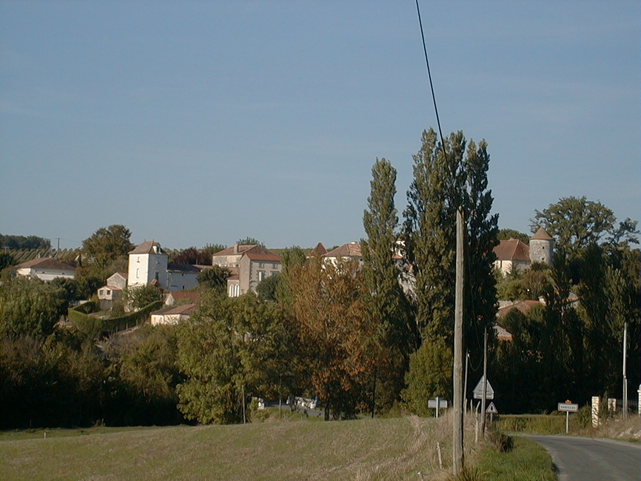 Sadillac (Dordogne)